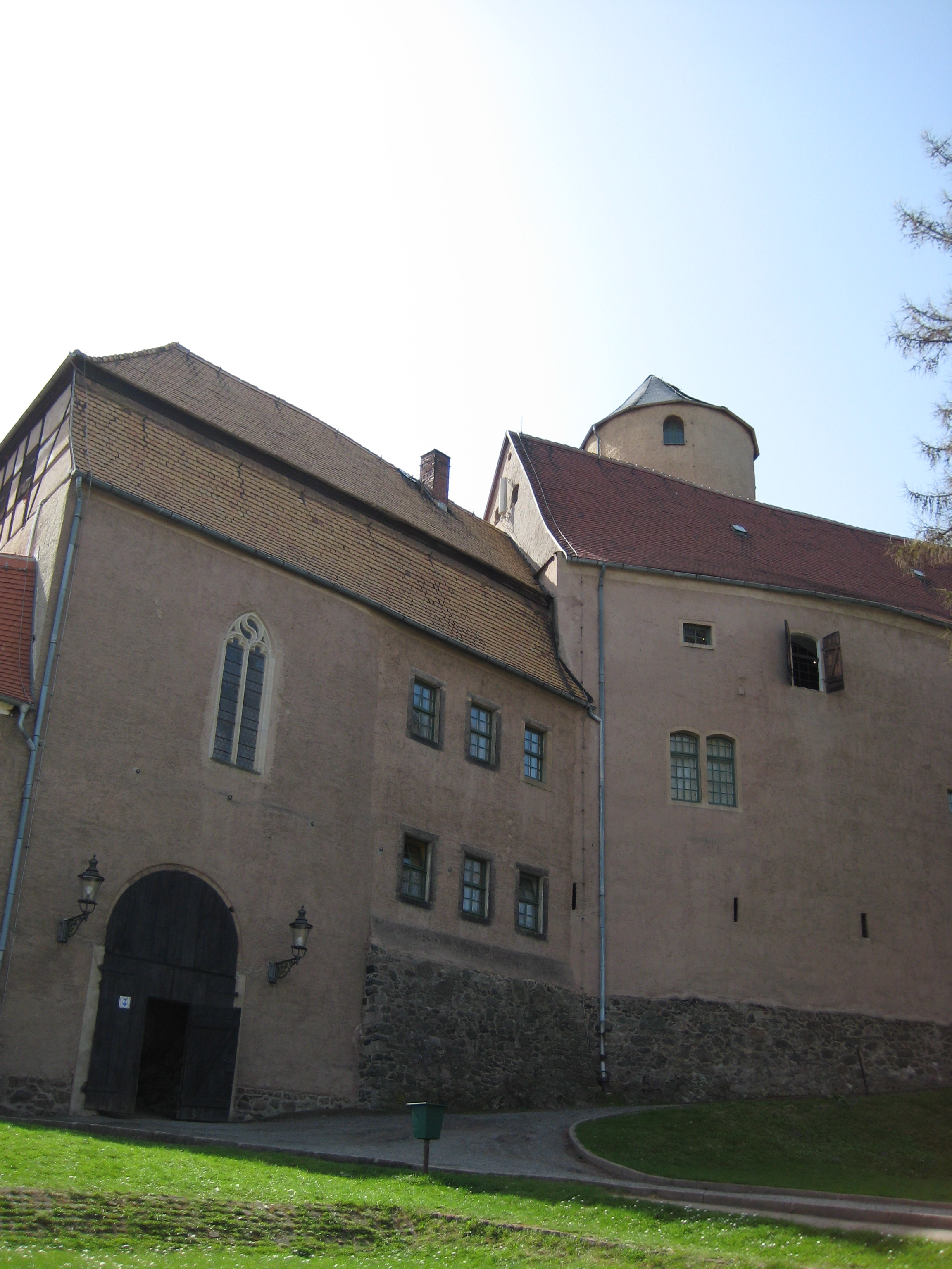 The castle of Schoenfels in Saxony.